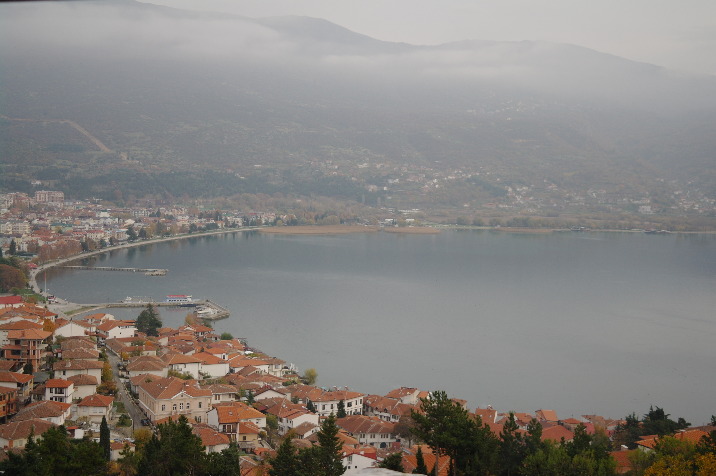 Ohrid